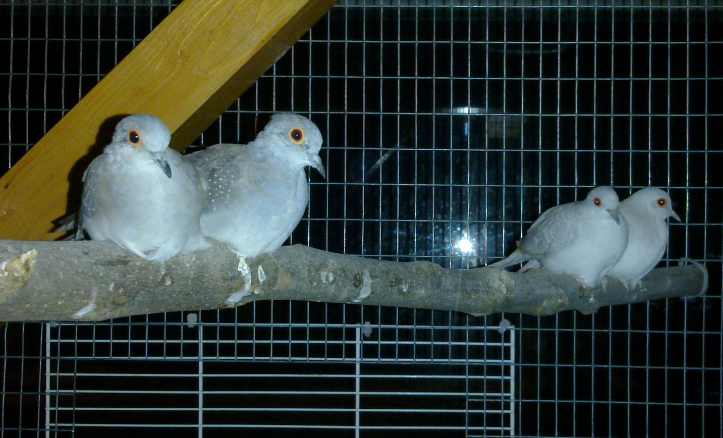 Diamond Dove (Geopelia Cuneata)